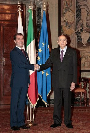 With President of Italy Giorgio Napolitano.